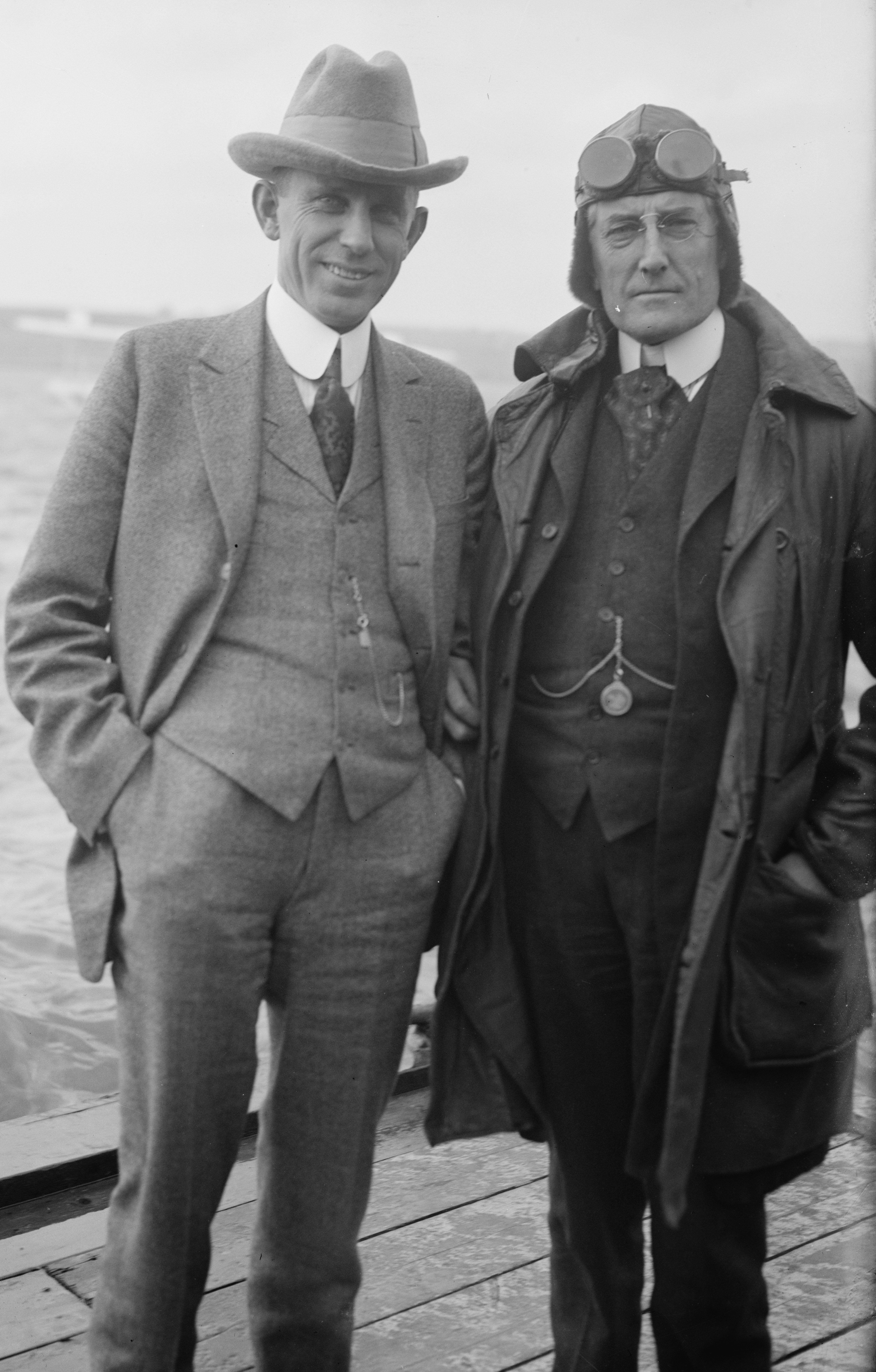 J. Frank Norris (1877 - 1952), a firebrand fundamentalist pastor and popular Baptist leader (left); and John Roach Straton (1875 - 1929), a prominent Baptist Pastor and anti-evolutionist debater (right).